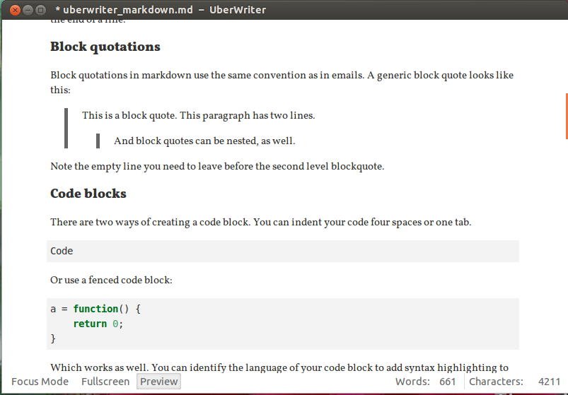 UberWriter Markdown Preview